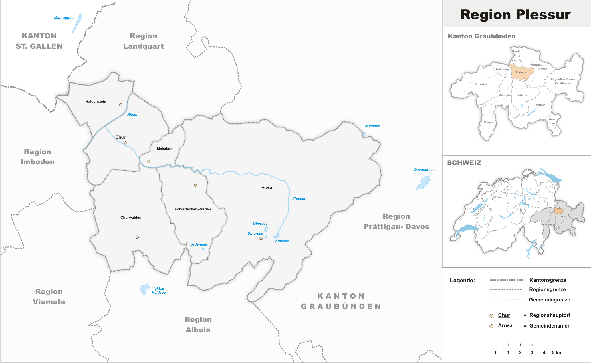 Municipalities in the district of Plessur